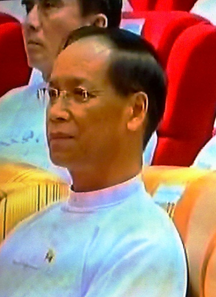 Sai Mauk Kham is an ethnic Shan politician and Vice President of Myanmar.